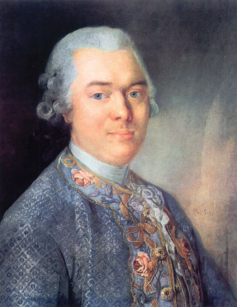 The portrait of baron Gottried van Swieten